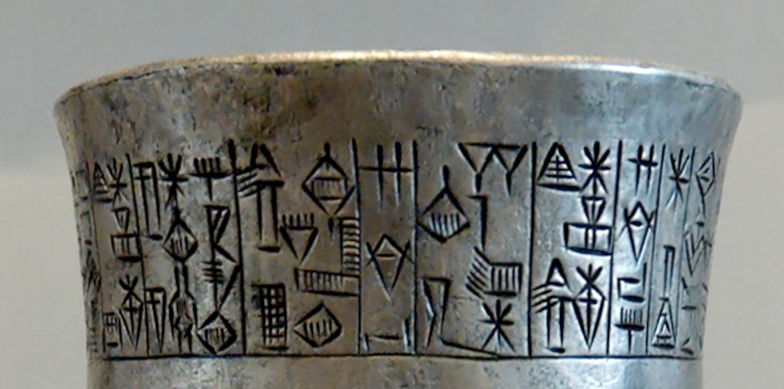 Vase Entemena Louvre AO2674 (script) circa 2400 BCE